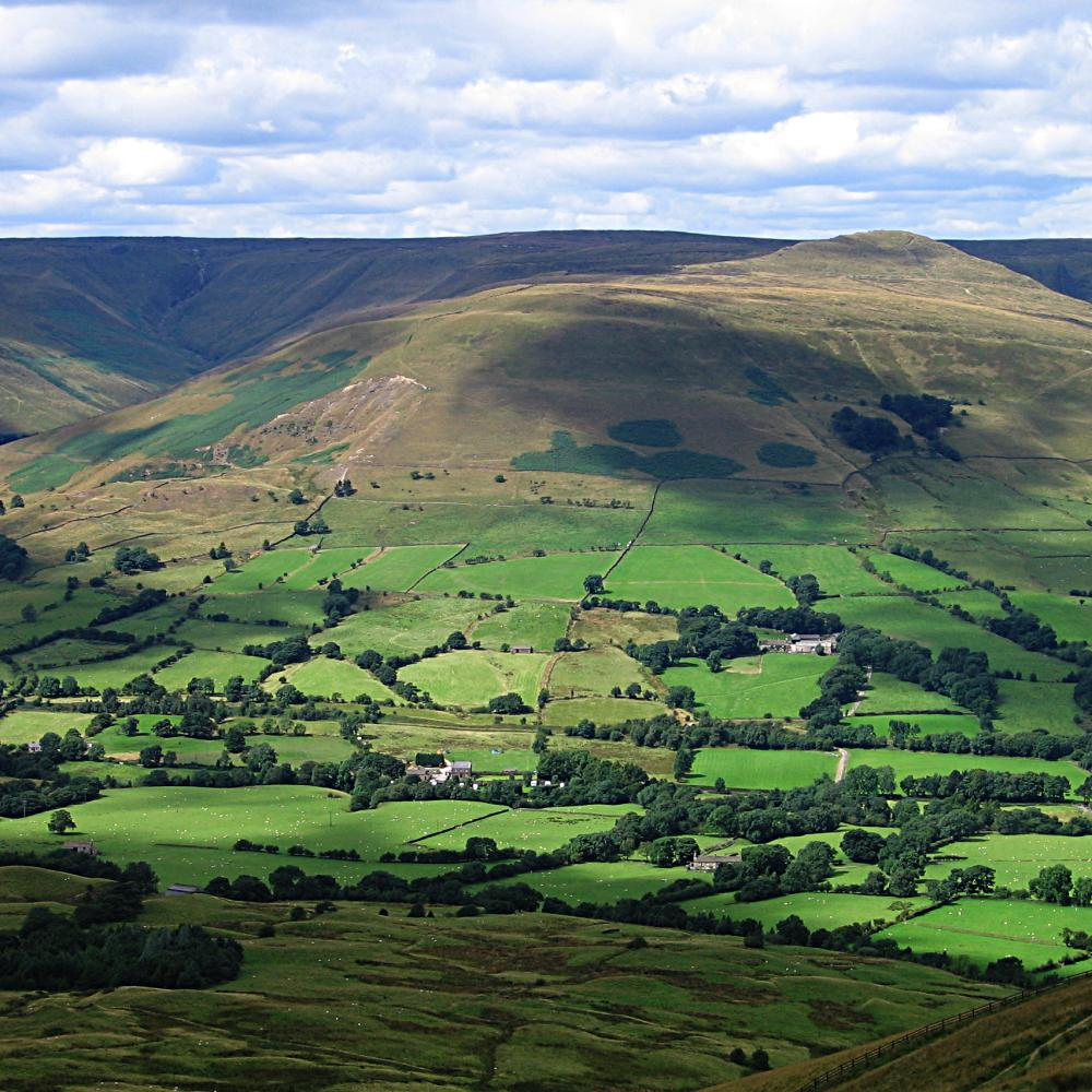 View down the valley from Mam Tor in the Peak District, UK. Twelve large limestone quarries operate in the Peak District Photographed by Bala Amavasai Camera: Canon A520